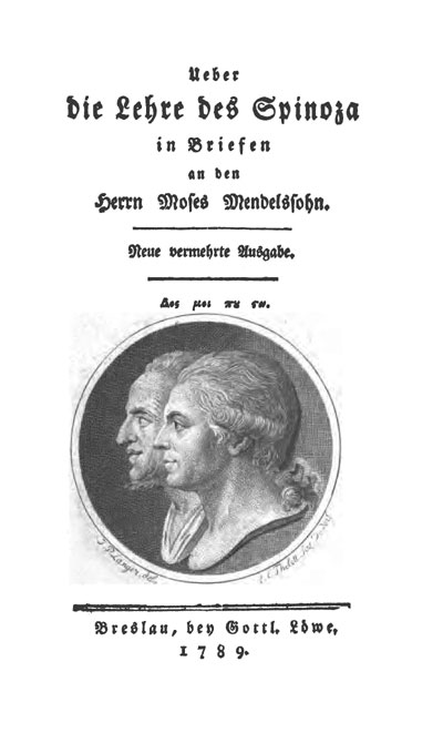 Title page of book in public domain.